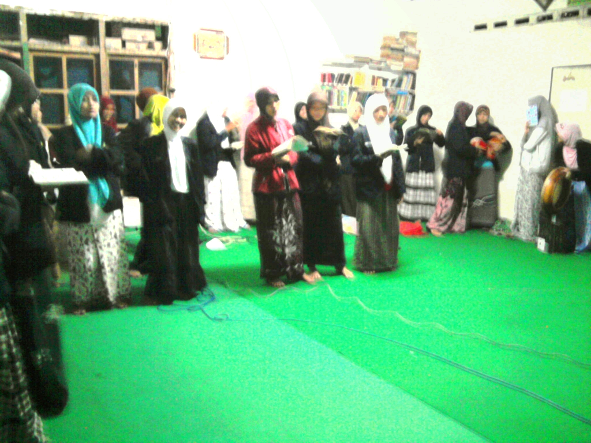 My Picture